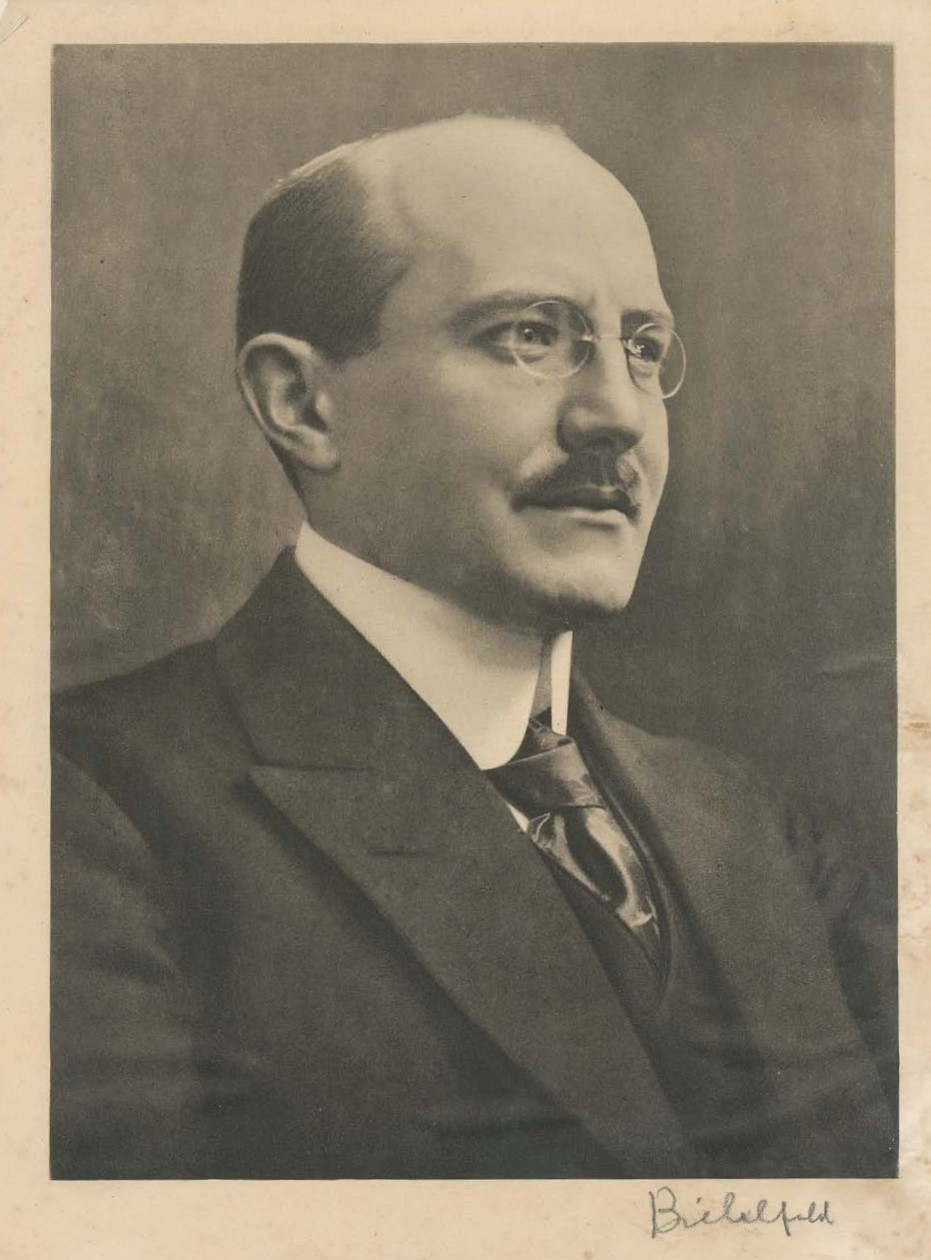 Franz Guntermann